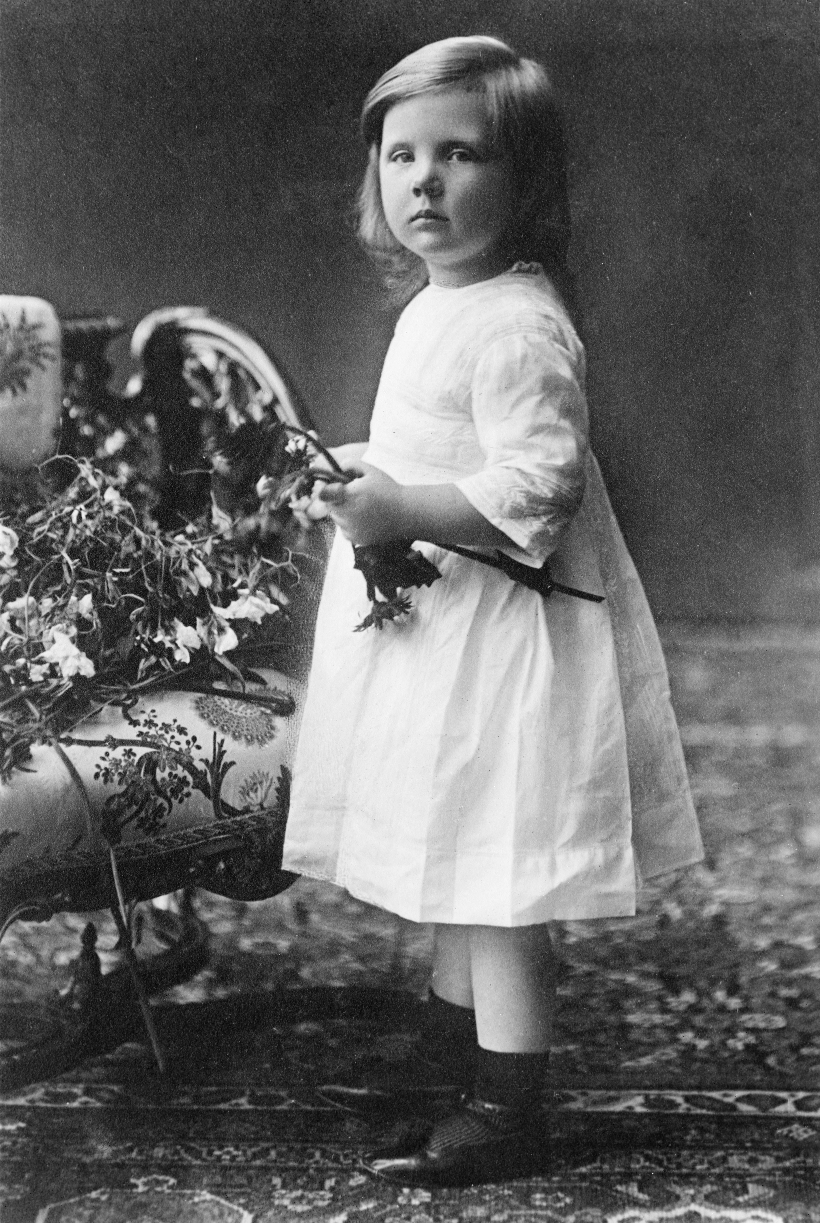 Princess Juliana of Holland